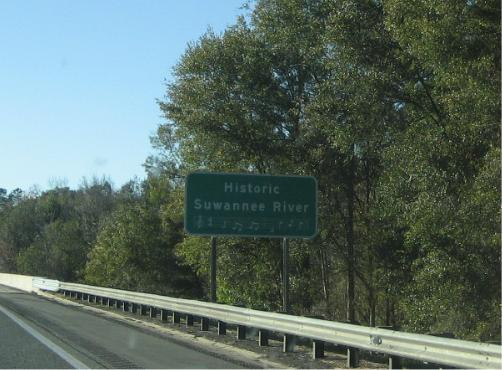 "Historic Suwannee River" sign, complete with first line of sheet music from "Old Folks at Home."